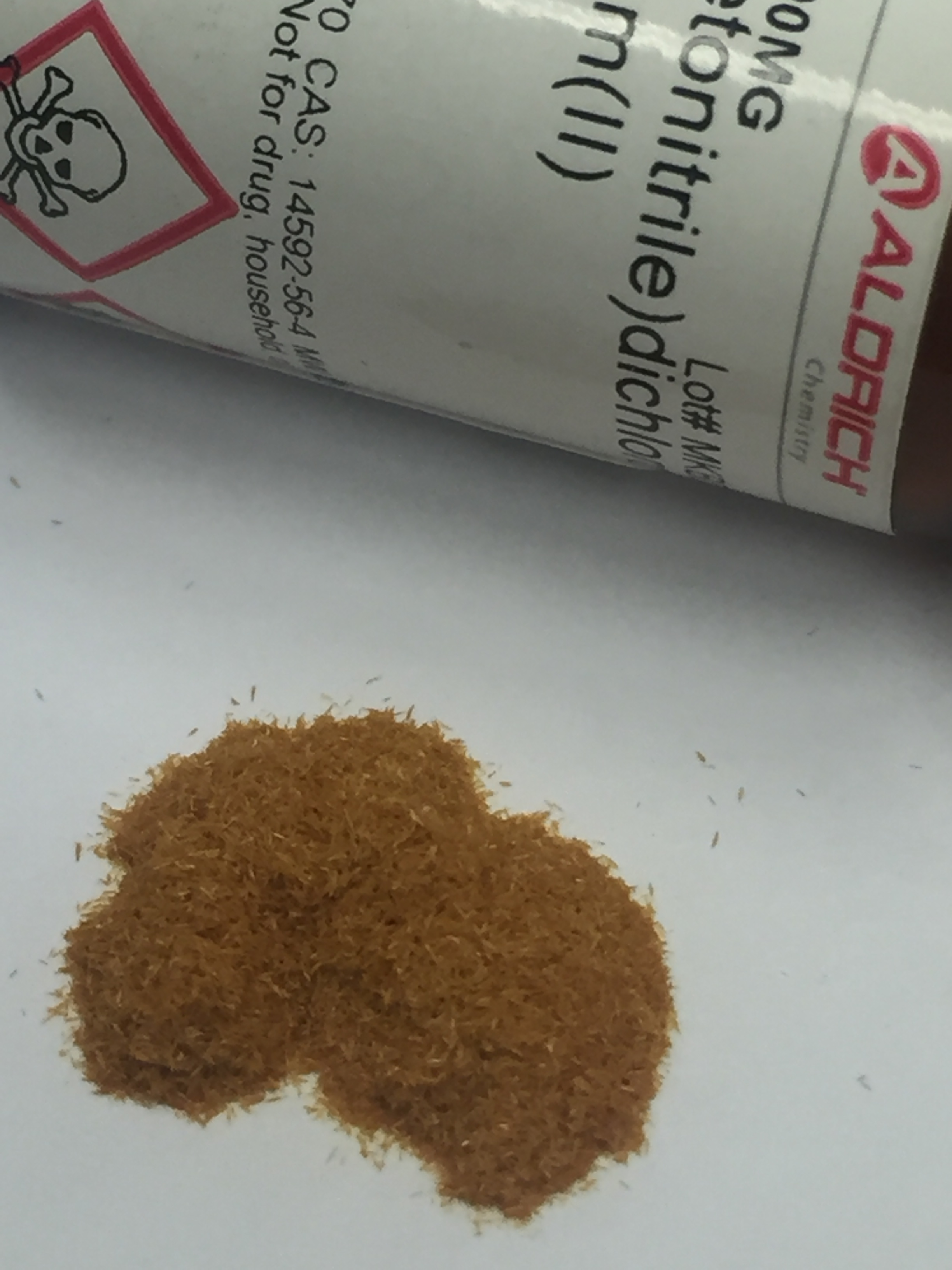 sample of PdCl2(PhCN)2